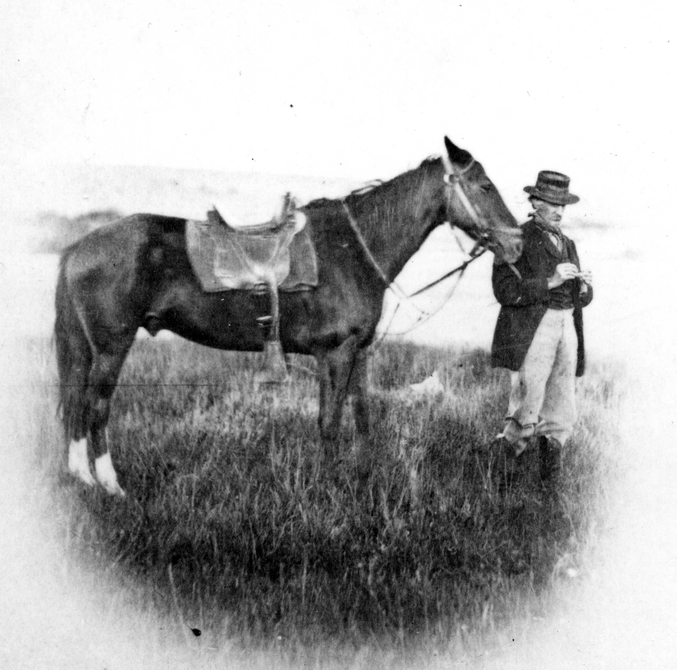 Cyrus Thomas during Hayden Geological Survey of the Territories, 1870 - W.H. Jackson photo